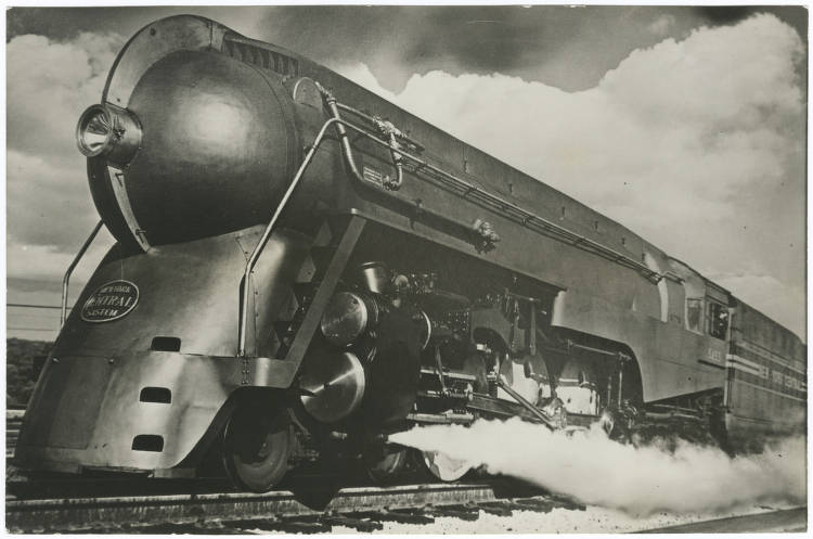 Hudson locomotive for the New York Central Physical Description: 1 photographic print: gelatin silver; 16 x 24 cm.